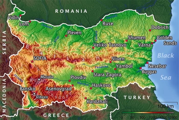 Map of Bulgaria in English